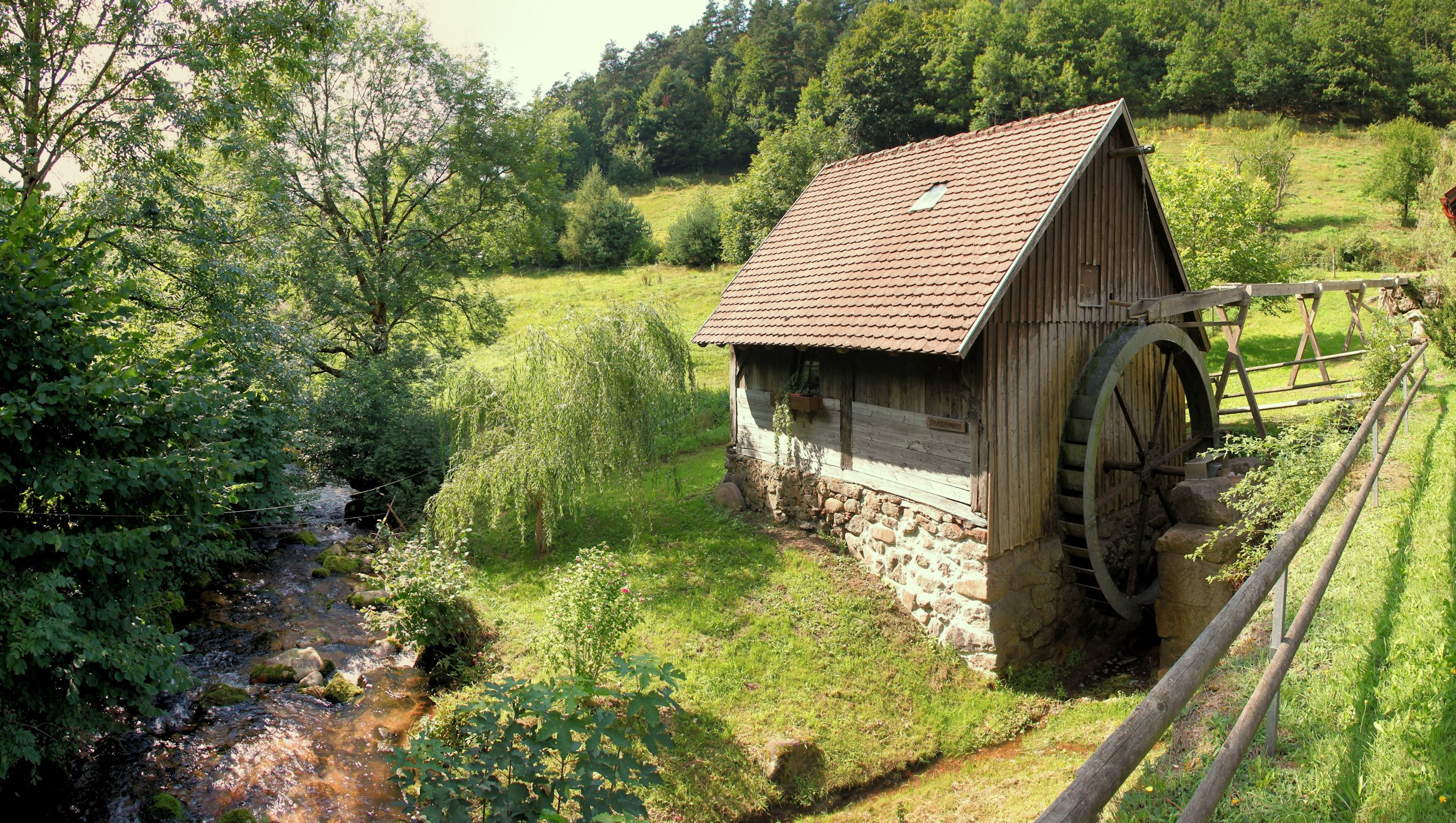 Hornberg: Straßerhof watermill